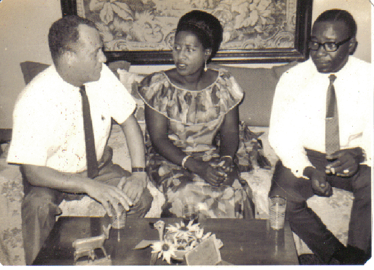 Beattie Casely-Hayford, left, at Accra Party